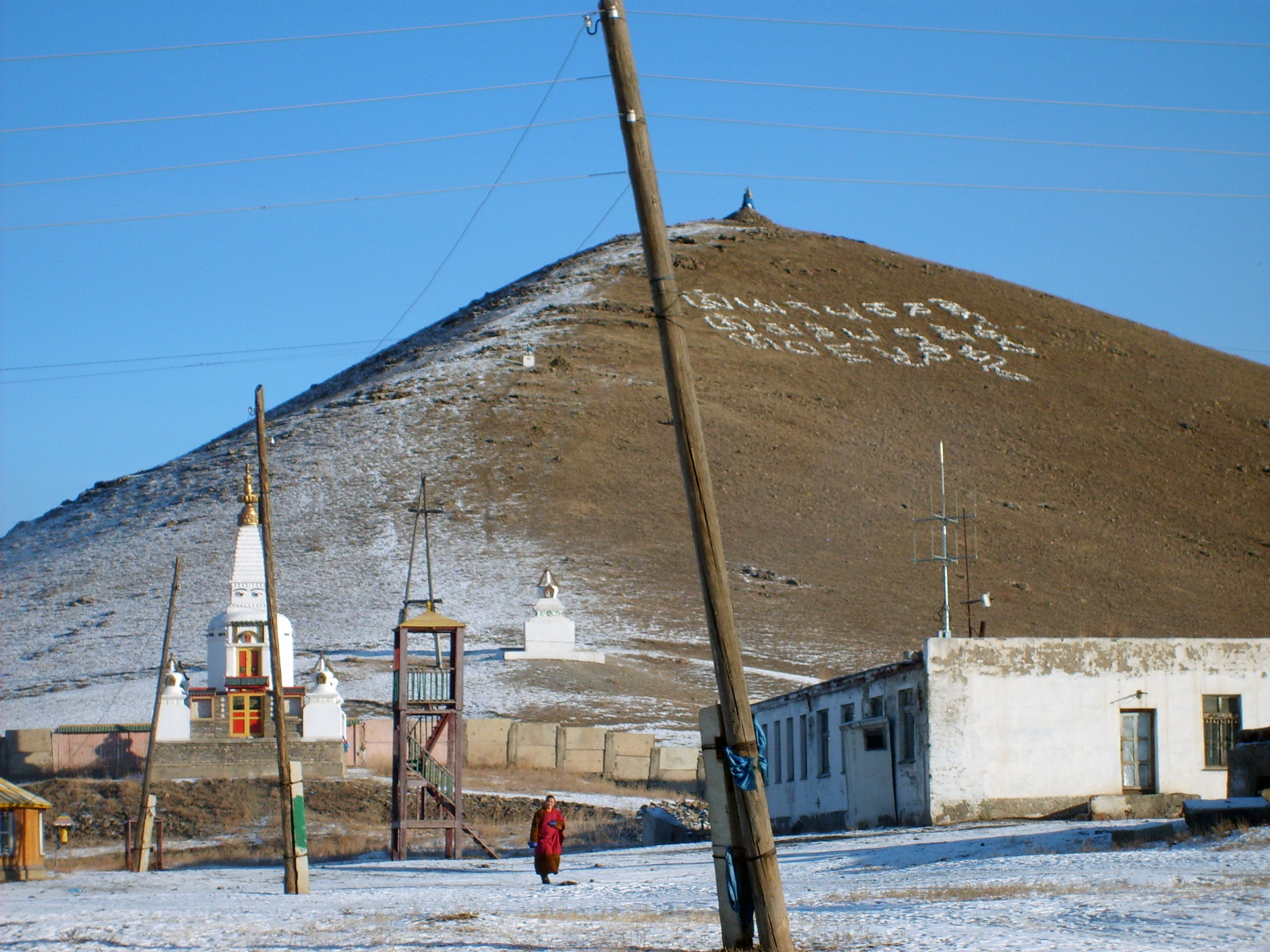 Dambadarjaalin Monastery grounds in Ulan Bator, in front of a sacred mount with mantra inscribed on the slope and an ovoo on the top.